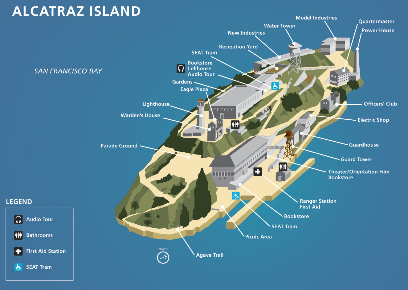 Official Alcatraz map from the brochure, labeling the points of interest and showing the location of where to begin the cellhouse audio tour and other visitor facilities.